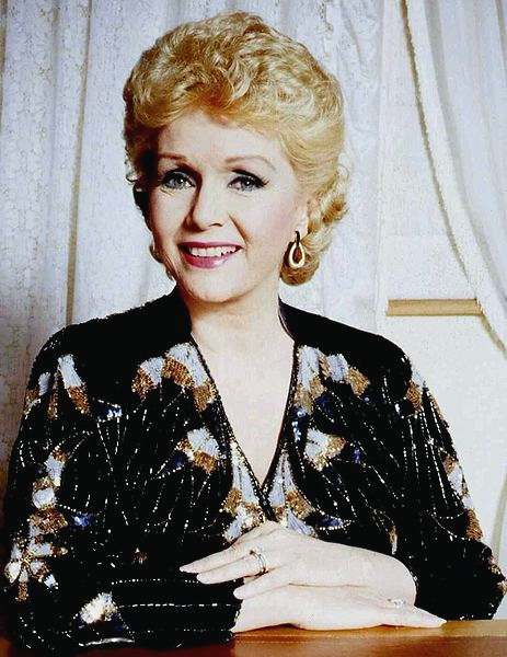 Colour portrait of Debbie Reynolds at her in home Los Angeles